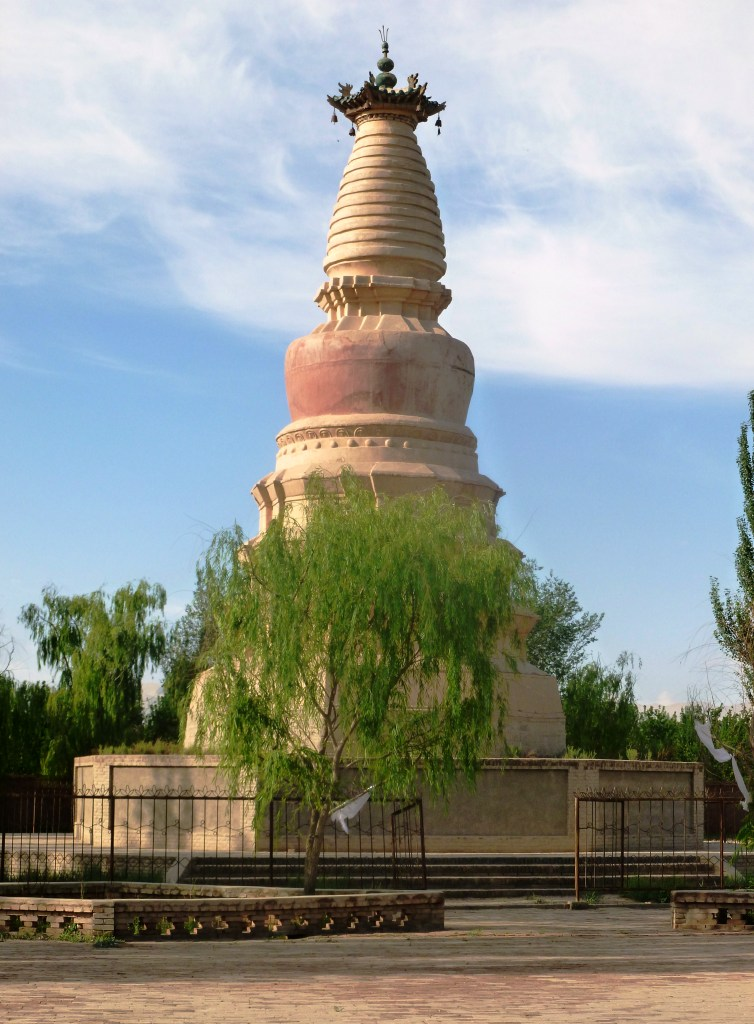 I took this photo when I visited the site in June, 2011